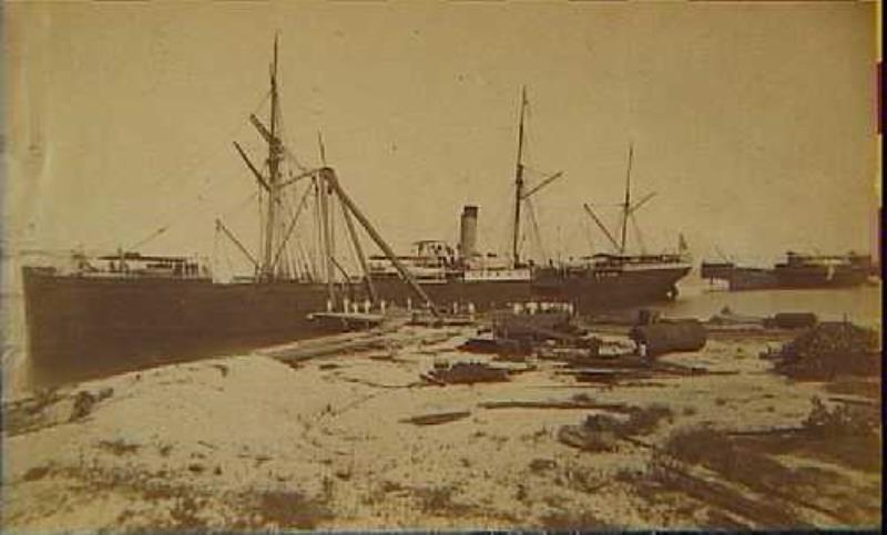 SS Prins Hendrik II of the SMN at Amsterdam Island (Untung Jawa) in 1878. SS Prins Hendrik II was the first ship to use the harbor of the NIDM at Amsterdam Island The photograph is mentioned in Bataviaasch handelsblad on 8 June: In the background one of the drydocks of the NIDM, probably Volharding Dock